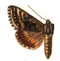 From Plate CCXXXVI